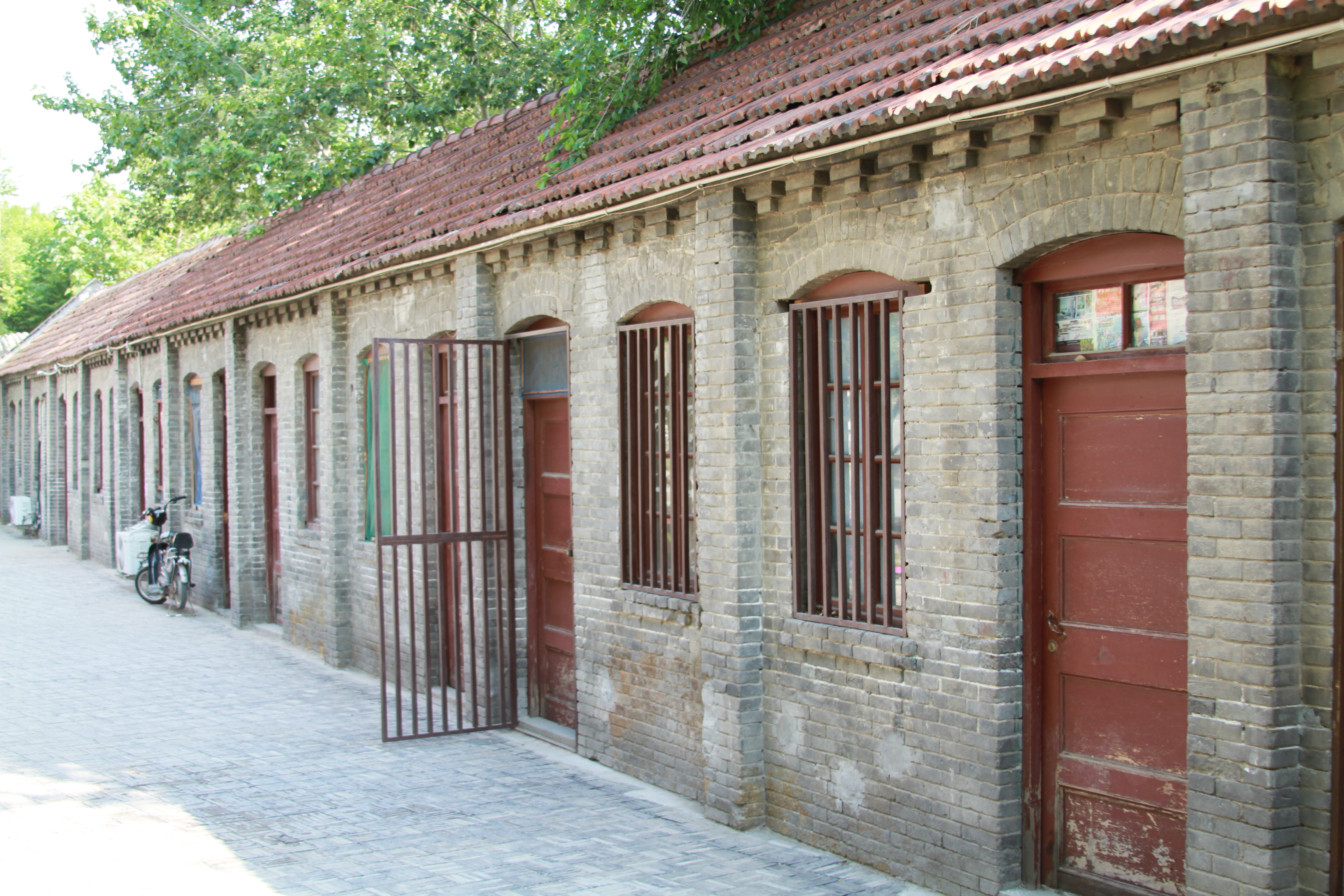 Photograph of a the right-hand side of a yard in the former Weihsien Internment Camp, Weifang, Shandong, China.